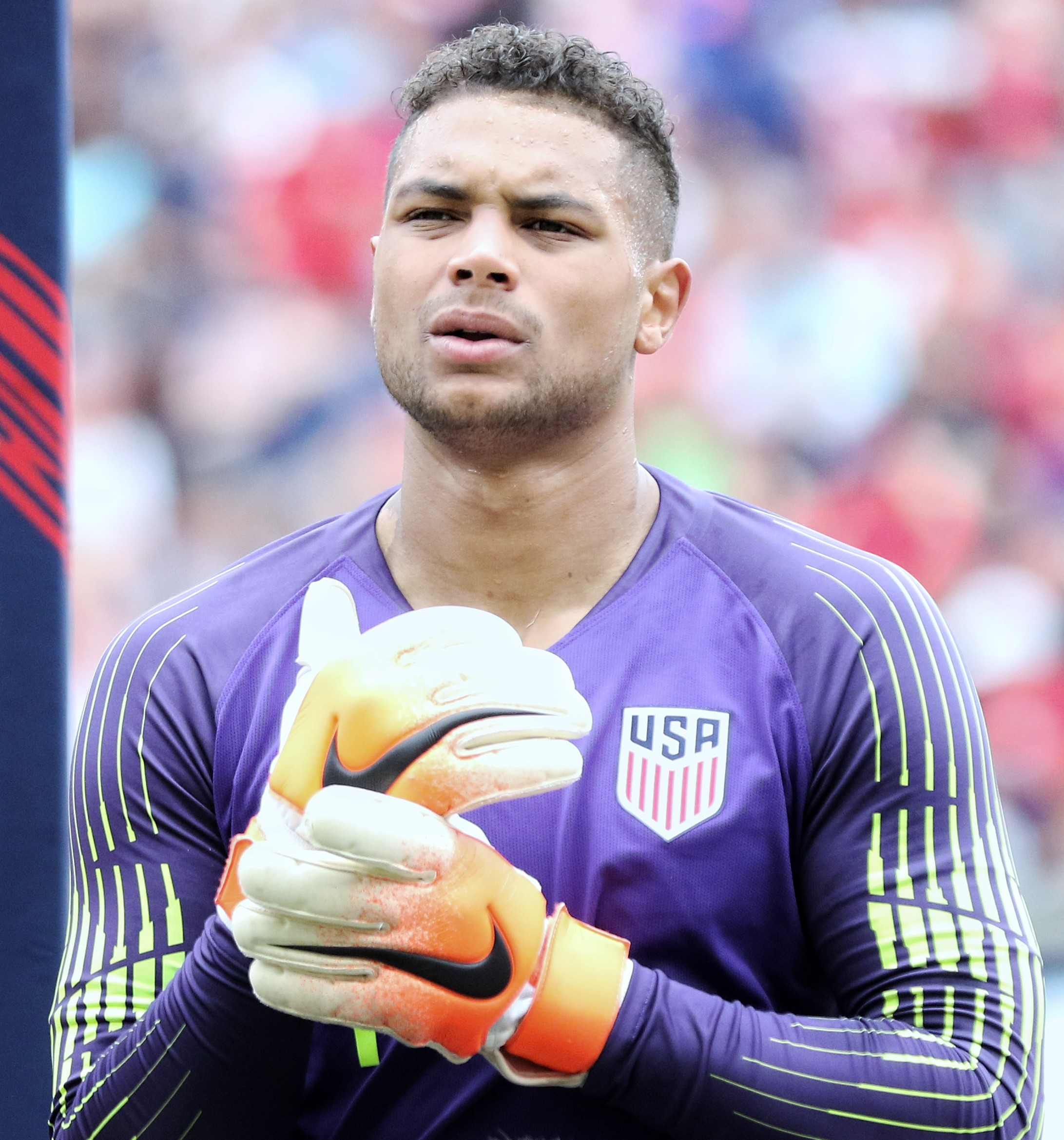 Zack Steffen representing the United States men's national soccer team on June 9, 2019.